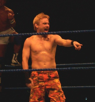 Cropped version of File:SpikeDudley in Australia.jpg. Cropped for better view of the wrestler Spike Dudley